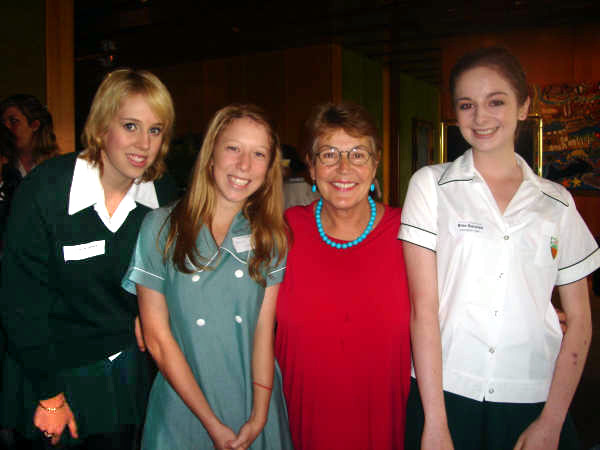 Helen Reddy (2nd from right), taken by Brianna Barwise at a Women's Leadership Conference in Sydney.